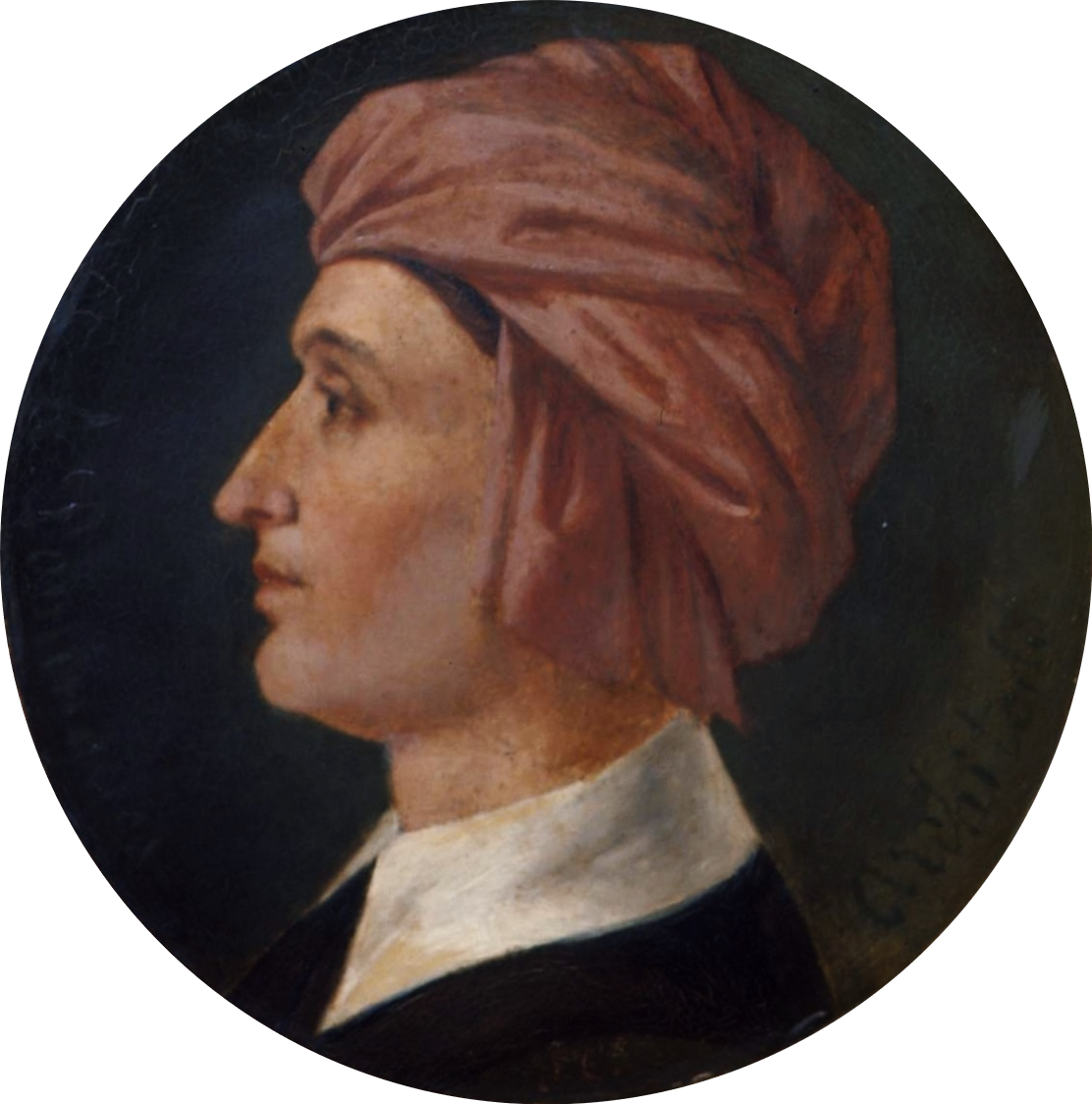 Afonso Domingues (?-1402), Portuguese architect (Monastery of Batalha). Portrait on the ceiling of the Mayor's Office, in the City Hall, Lisbon, Portugal.